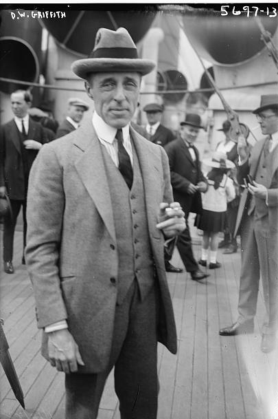 David Wark Griffith